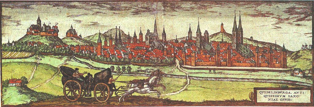 This image was created by Braun & Hogenberg in the 16th century. (1581)